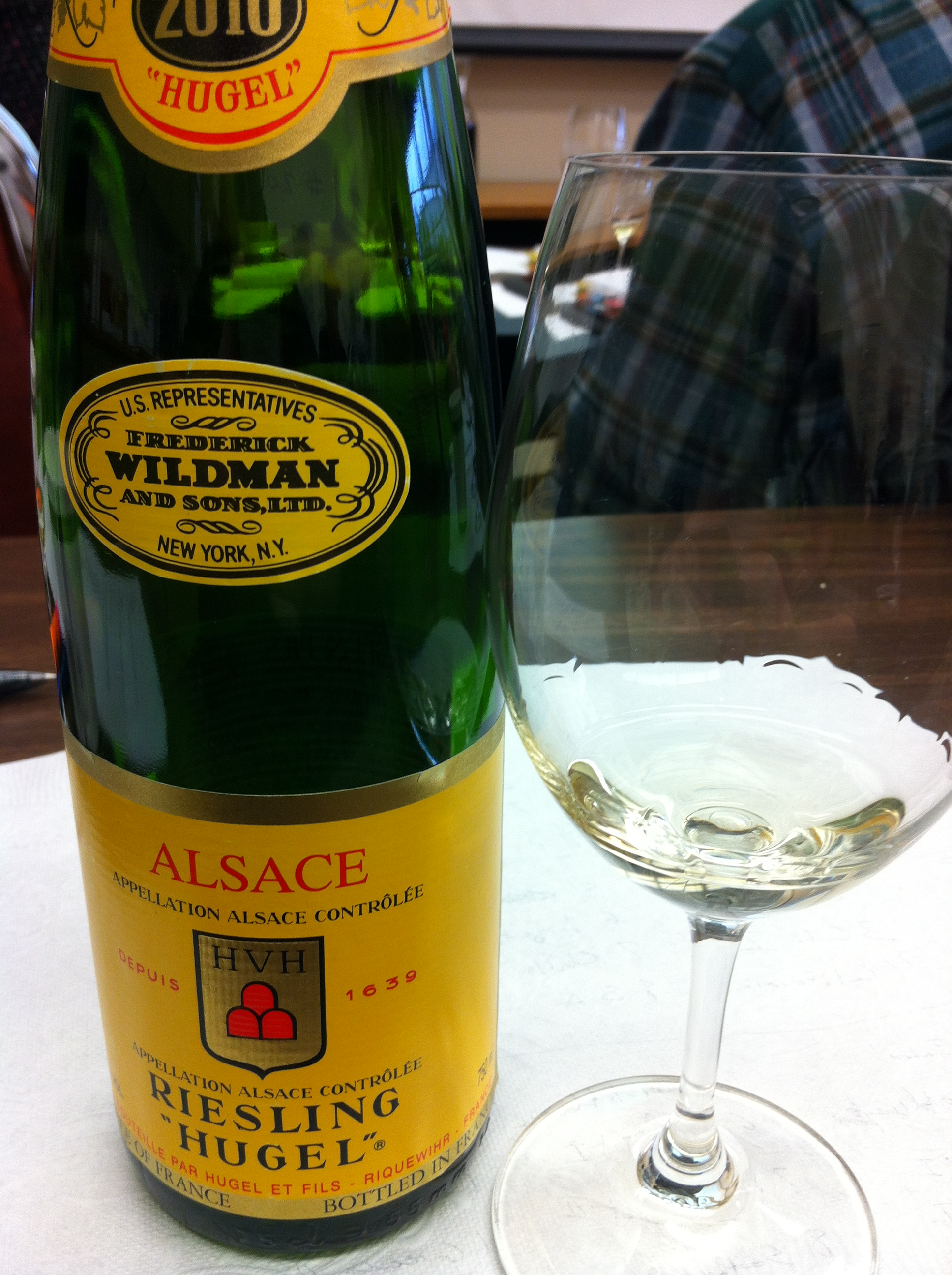 French wine made from the Riesling grape in Alsace.